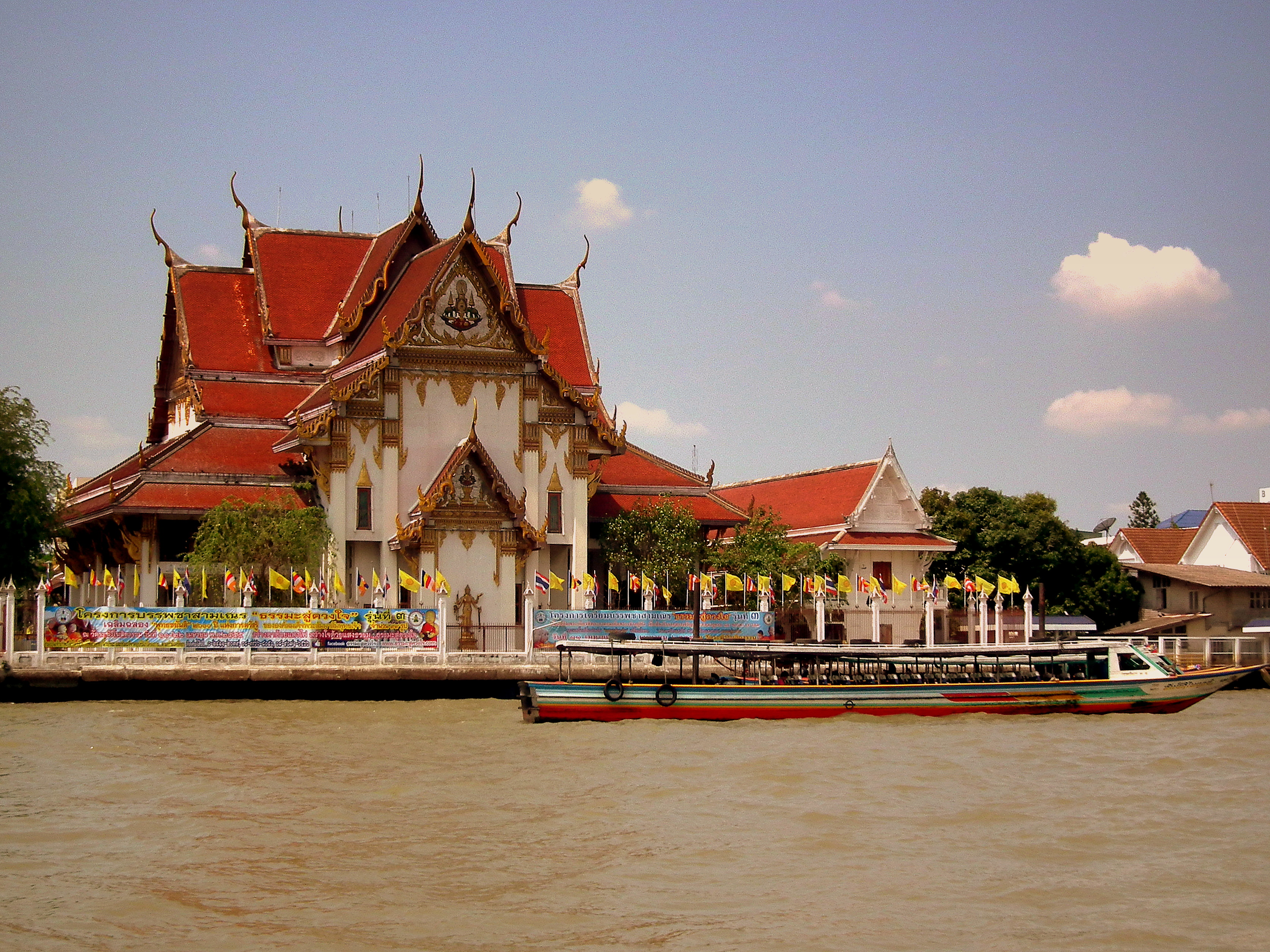 CHAO PRAYA RIVER BANGKOK THAILAND FEB 2012